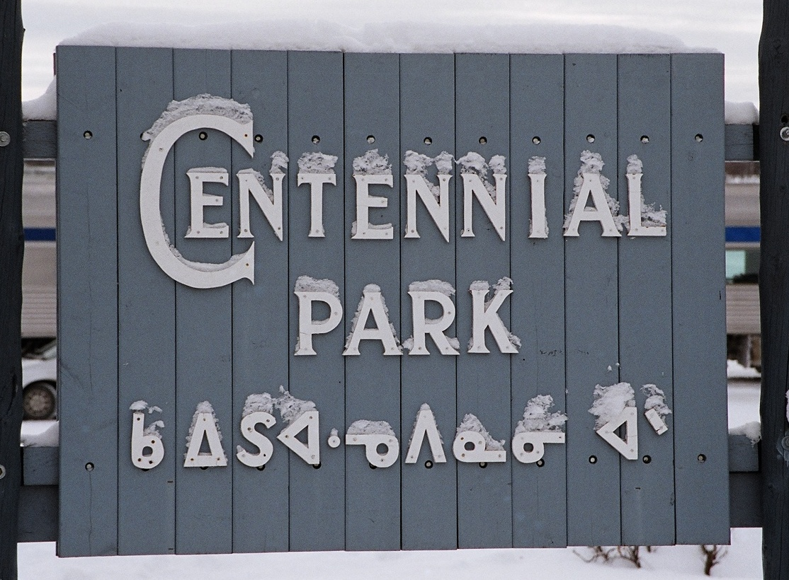 A sign at Centennial Park in Sioux Lookout, Ontario, Canada with Ojibwe Syllabics. Text: Centennial Park ᑲᐃᔑᐊᓉᐱᓇᓂᐧᐊᐠ Non-roman text transliteration and translation: fully pointed as ᑳᐃᔑᐊᓉᐱᓈᓂᐗᐣᐠ (Gaa-izhi-anwebinaaniwang); unpointed as ᑲᐃᔑᐊᓉᐱᓇᓂᐧᐊᐠ; translated as "the place where people repose." The second ᐧ (w) is missing from the sign.